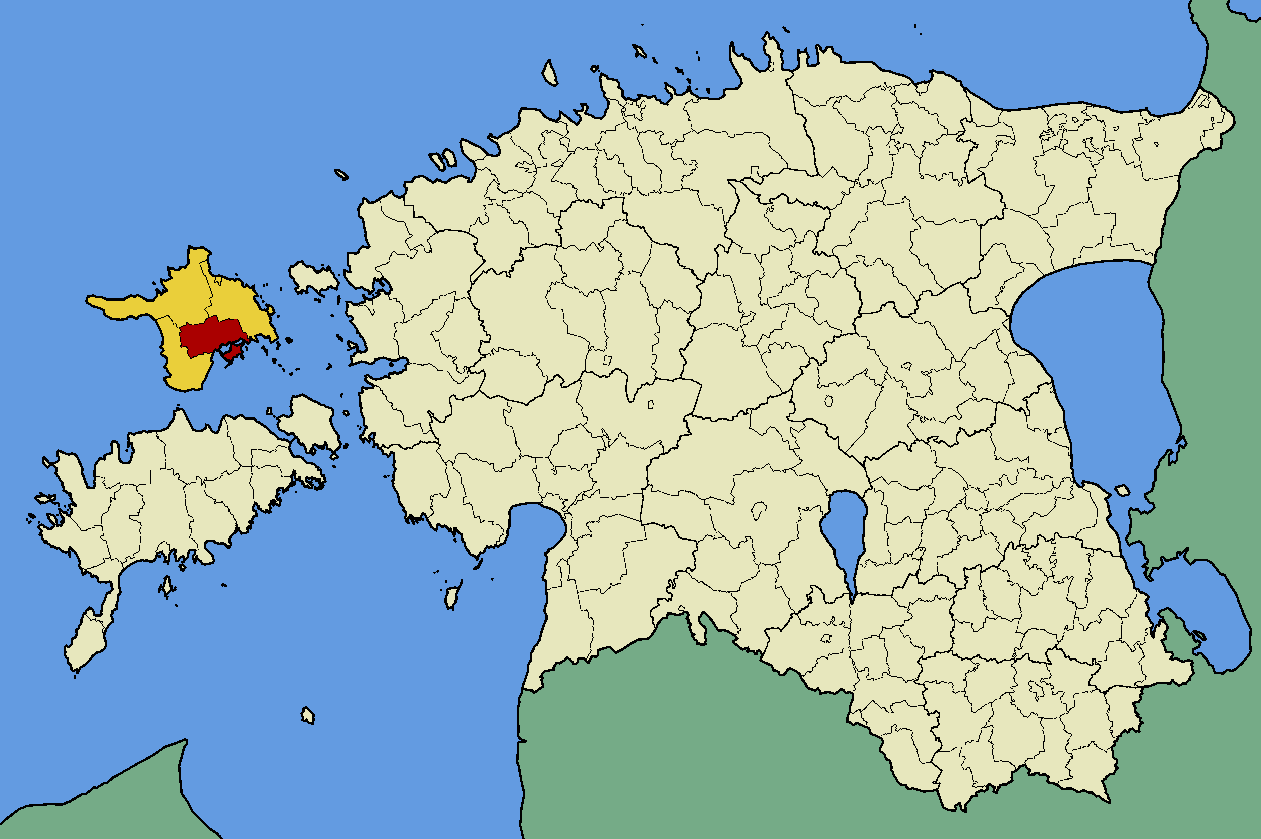 Map of Estonia with borders of municipalities (parishes). Hiiu county and Käina municipality emphasized.